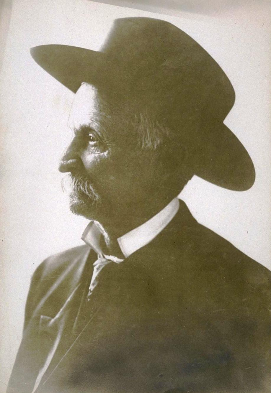 Lucky Baldwin (1828-1909), American businessman and founder of Santa Anita Park (horse racing venue)